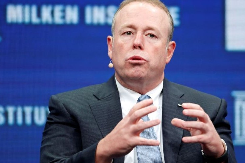 Kevin Turner speaking at the 2016 Milken Institute in Los Angeles, California